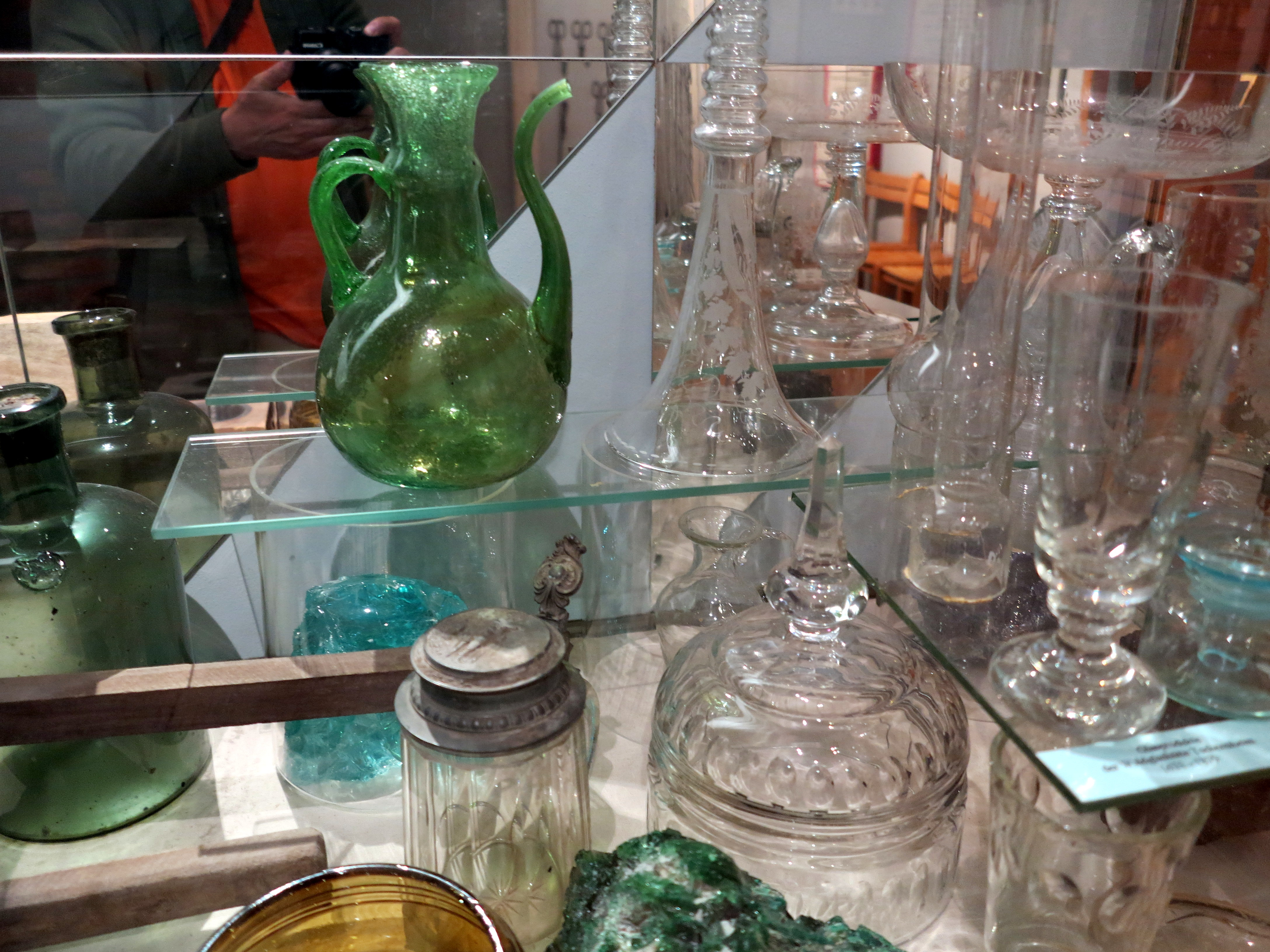 Glass products, presumably from the village glassblower Tscherniheim, a place of Forest glass production from 1621 to 1879 in the municipality Hermagor-Pressegger See in Carinthia / Austria / EU. Exhibits at the Museum of Folk Culture in Spittal an der Drau.